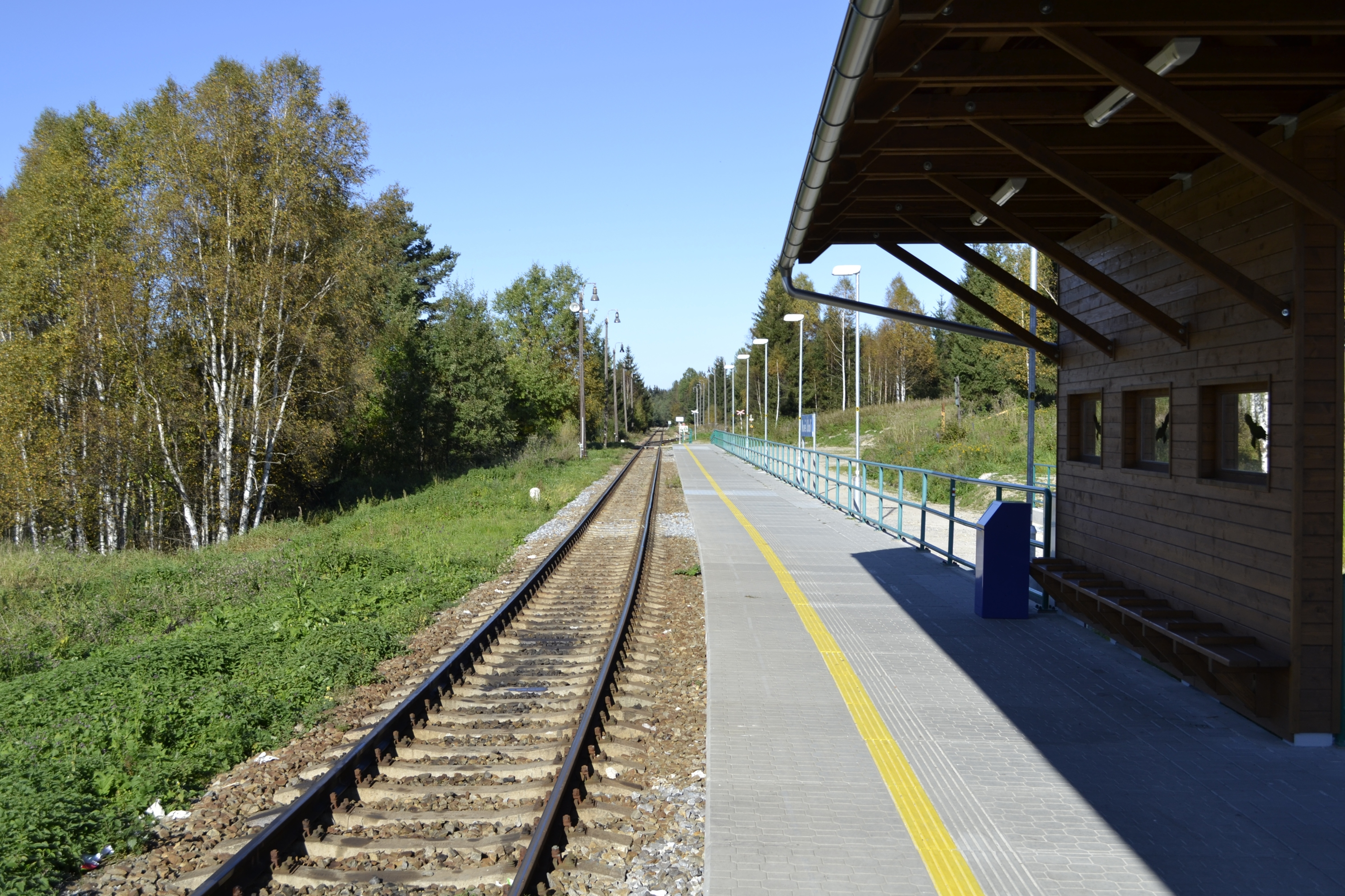 The train station in Nové Údolí in 2011.